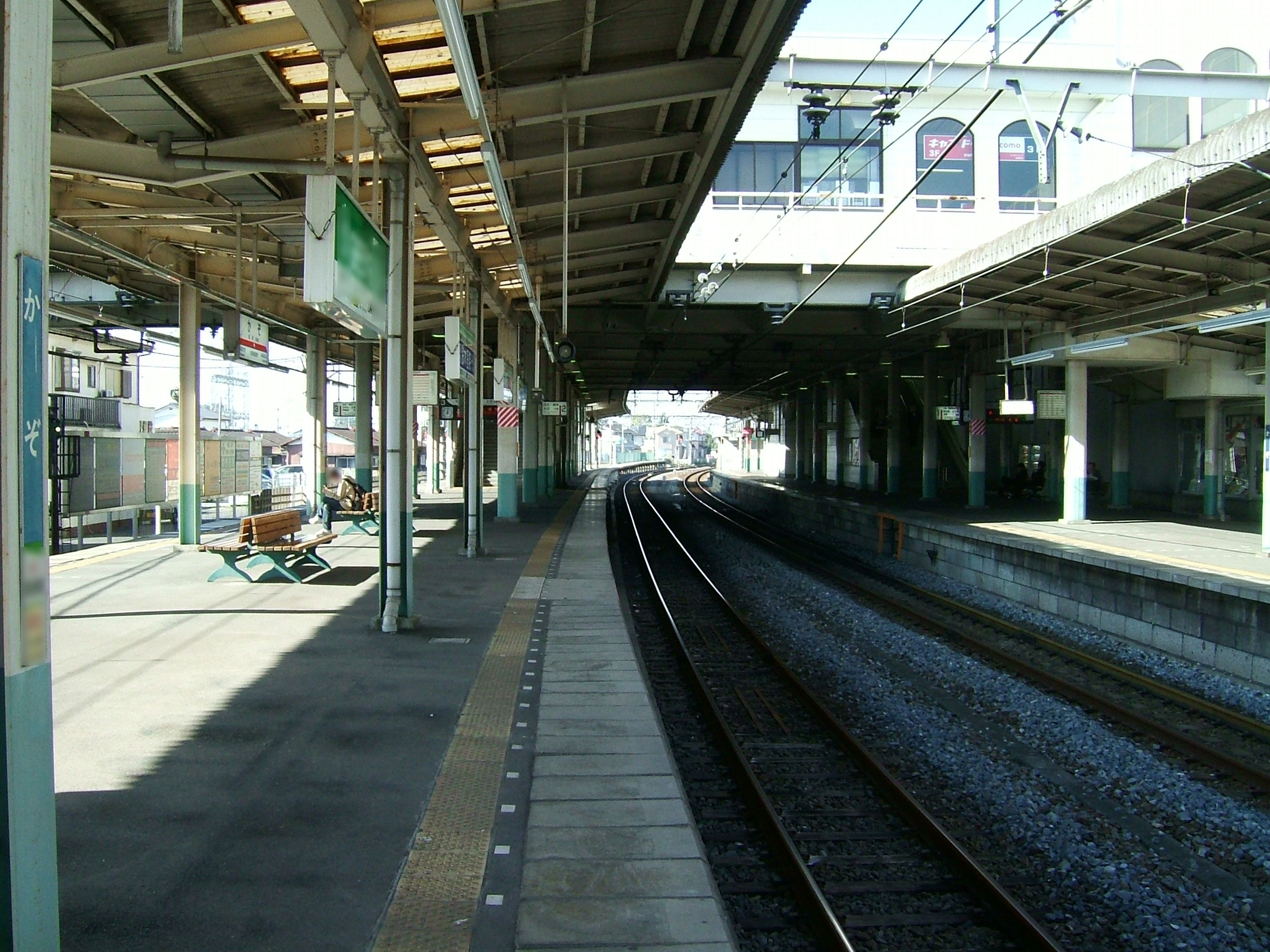 Kazo Station platform (Tōbu Railway Isesaki Line)